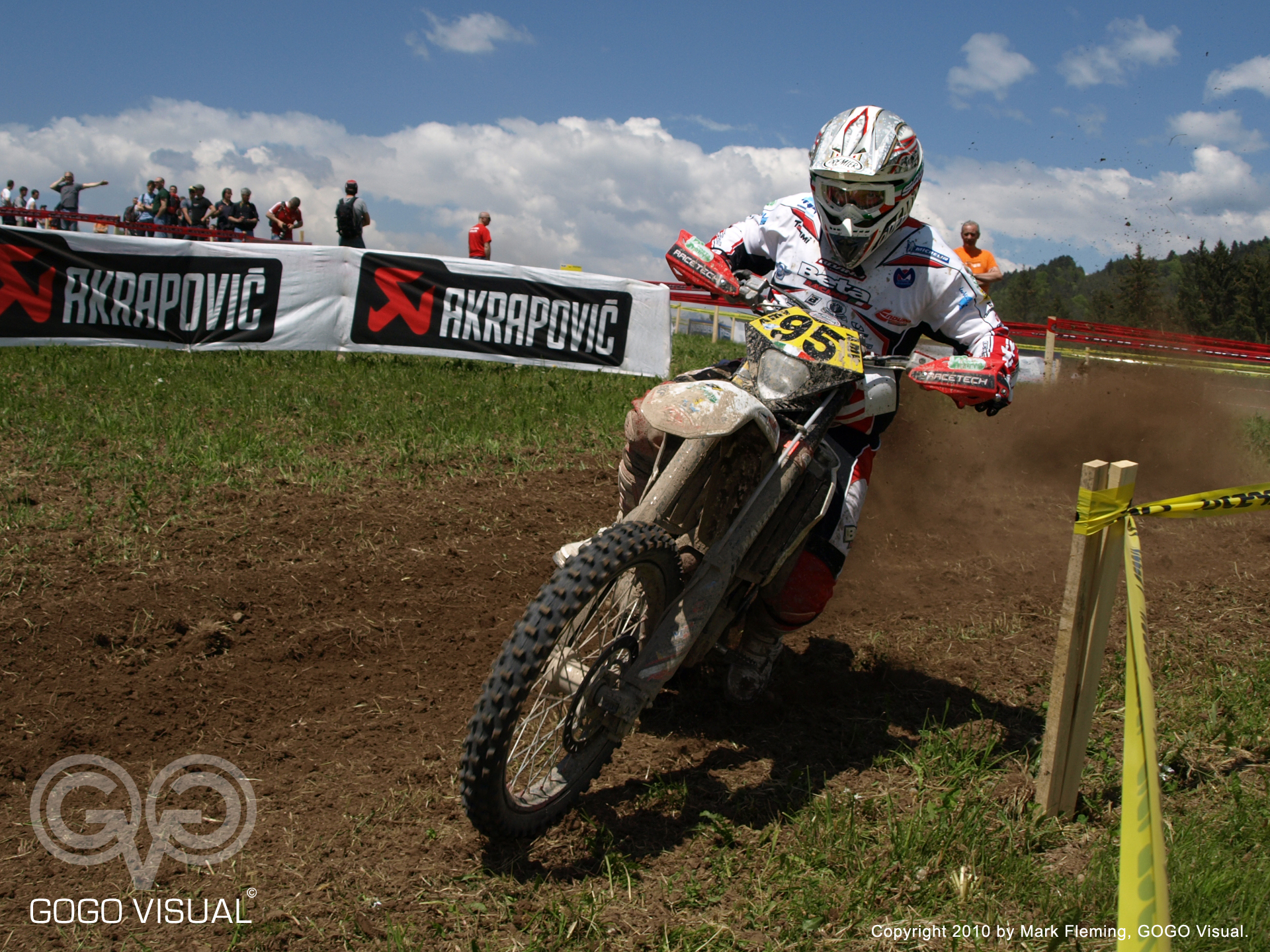 E3 - Giovanni Gritti (ITA, Beta) at the 2010 MAXXIS FIM Enduro World Championship GP of Italy, in Lovere (41st Valli Bergamasche).